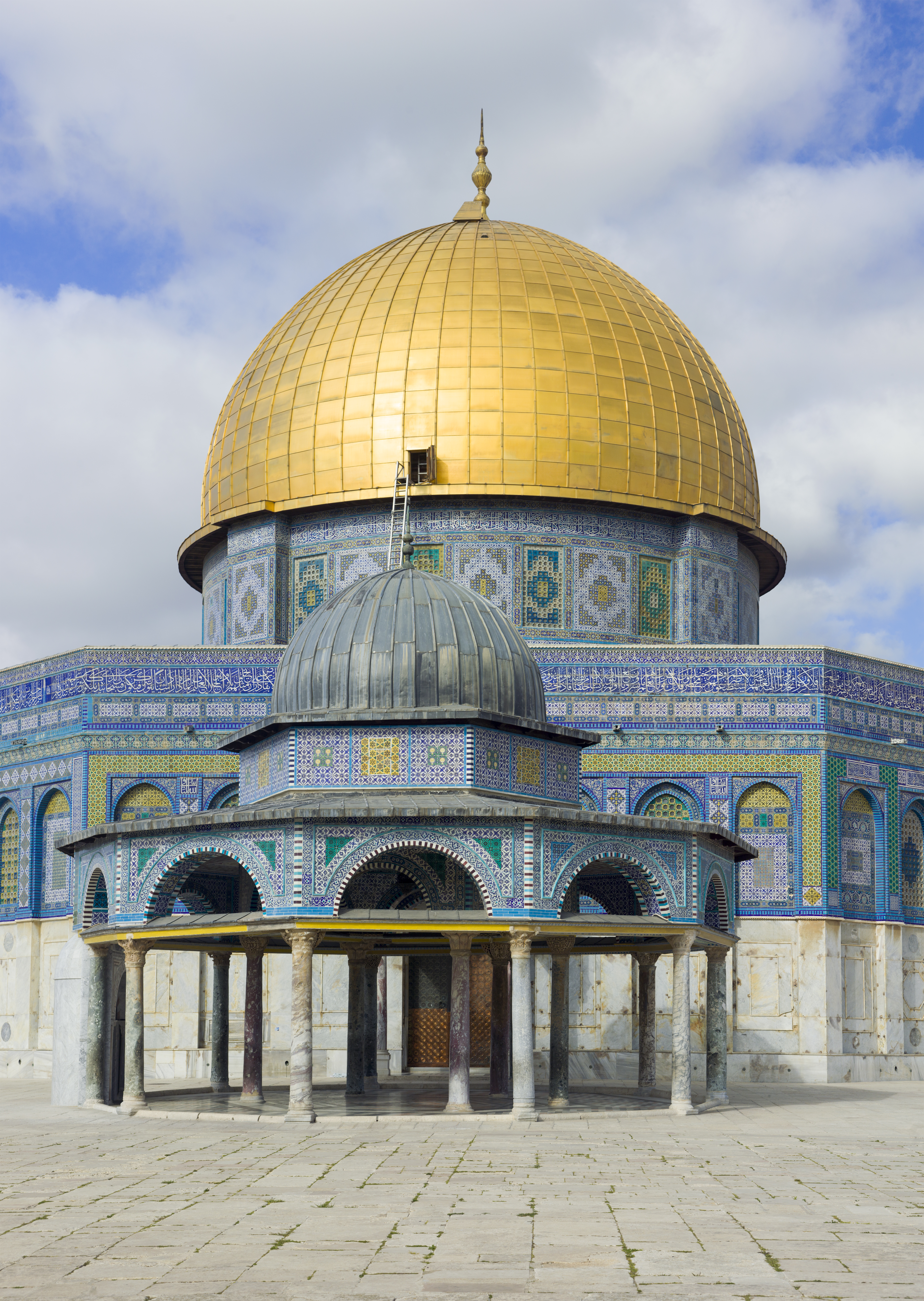 The Dome of the Chain (Arabic: قبة السلسلة, Qubbat al-Silsila) in front of The Dome of the Rock (Arabic: مسجد قبة الصخرة, Hebrew: כיפת הסלע), on the Temple Mount in the Old City of Jerusalem. The Dome of the Chain was constructed during the Umayyad Caliphate (c. 685 AD) and served as a model for the building of the Dome of the Rock (c. 691 AD).